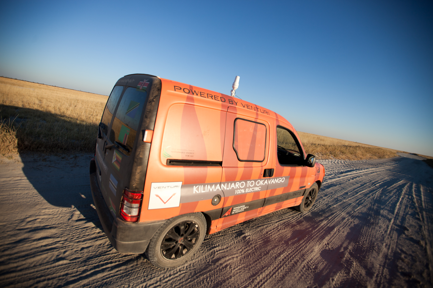 Citroën Berlingo "Powered by Venturi"